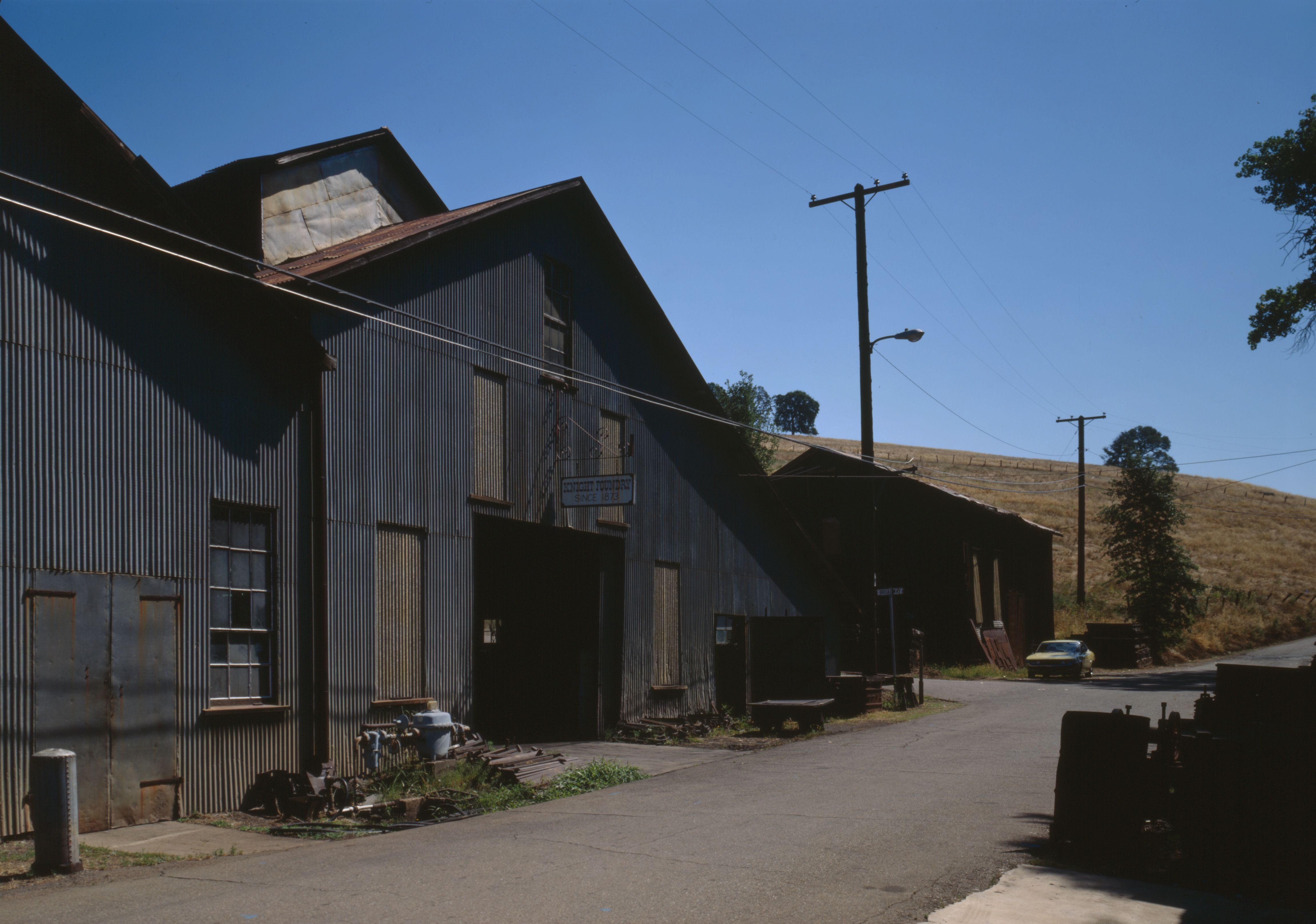 Exterior of the Knight Foundry (facing northeast), Sutters Creek, California, USA